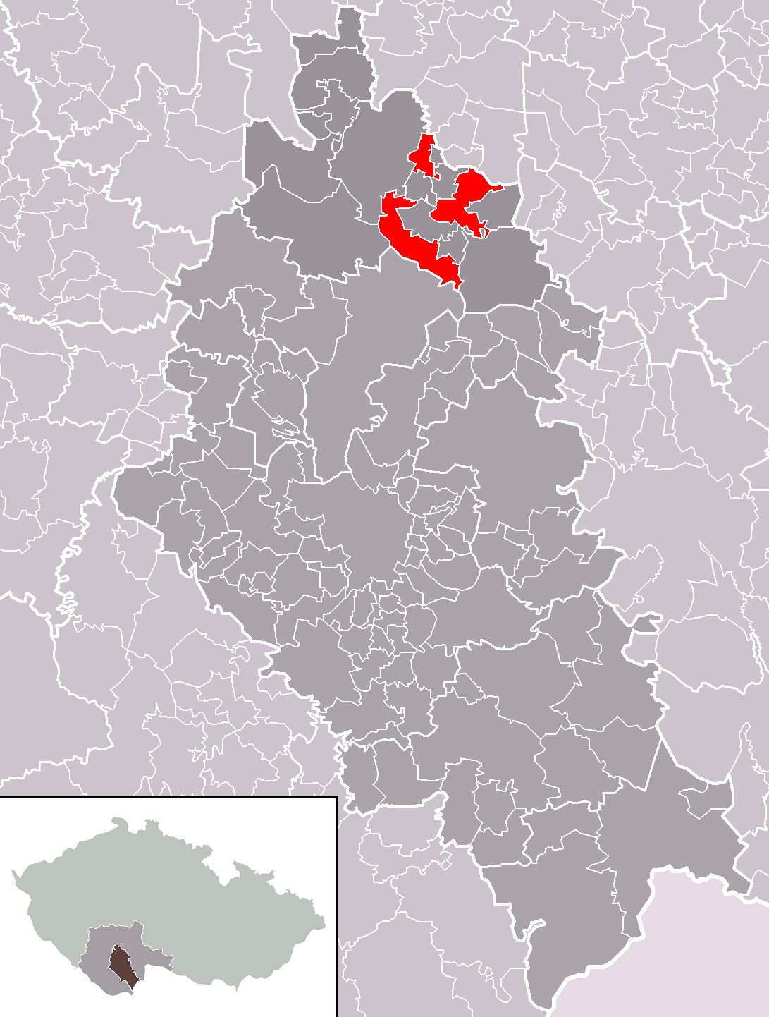 Location of Žimutice municipality within České Budějovice District and administrative area of Týn nad Vltavou as a Municipality with Extended Competence.